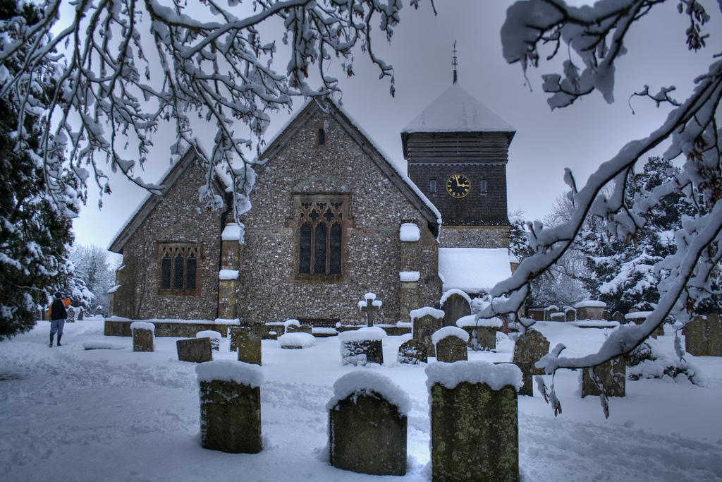 Ropley Church - January 2010